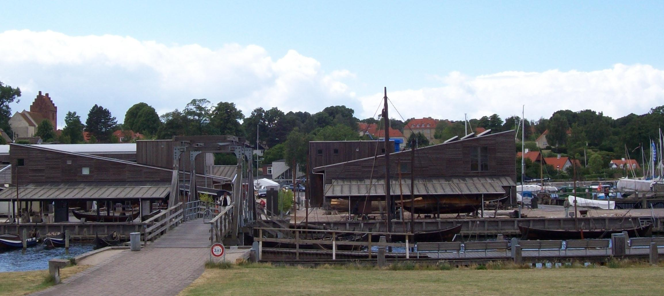 Roskilde Viking Centre